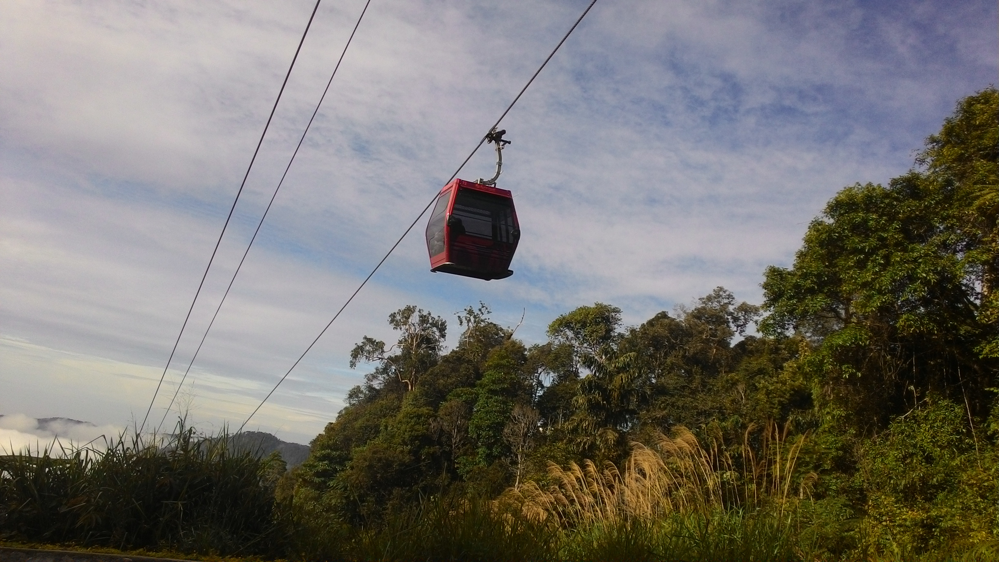 As of 2017